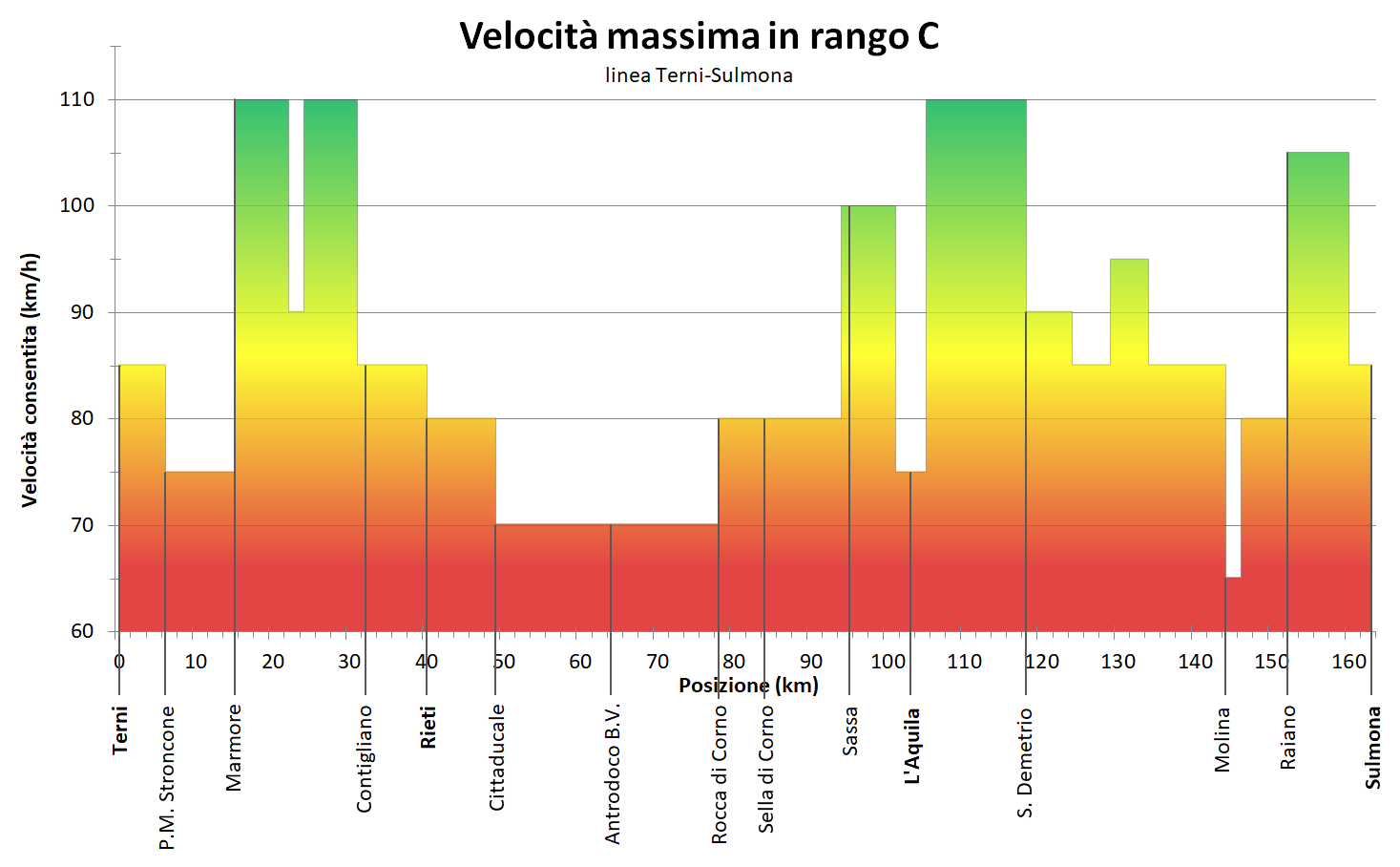 Graph showing the maximum allowed speed on each stretch of Terni-Rieti-L'Aquila-Sulmona railway (in central Italy) for trains categorized in "rango C"